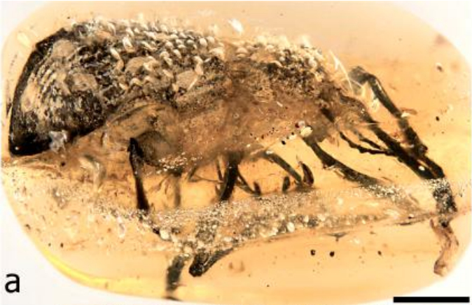 Nugatorhinus albomaculatus, holotype. Habitus, right lateral (a); Scale bar: 1.0 mm